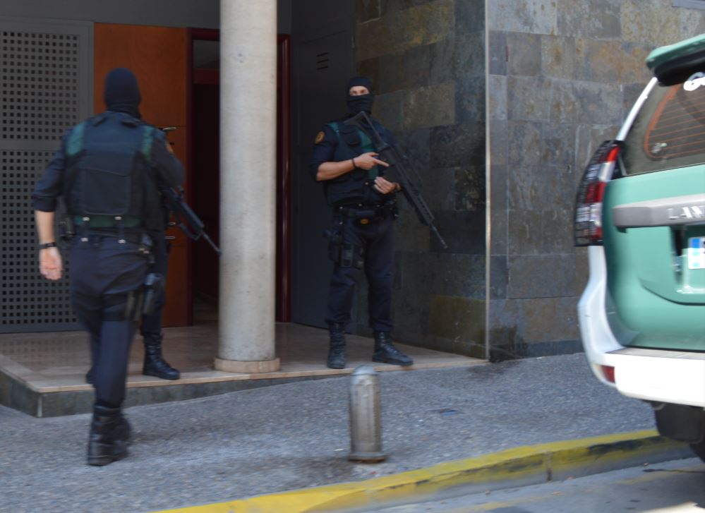 Image of the police that arrested in Arbúcies two people accused of collaborating with the financing structure of Daesh. This investigation has been supported by the "Centro Nacional de Inteligencia". It's the first case in Spain in which specific evidence of the use of the money sent from Europe to aid Daesh is found.